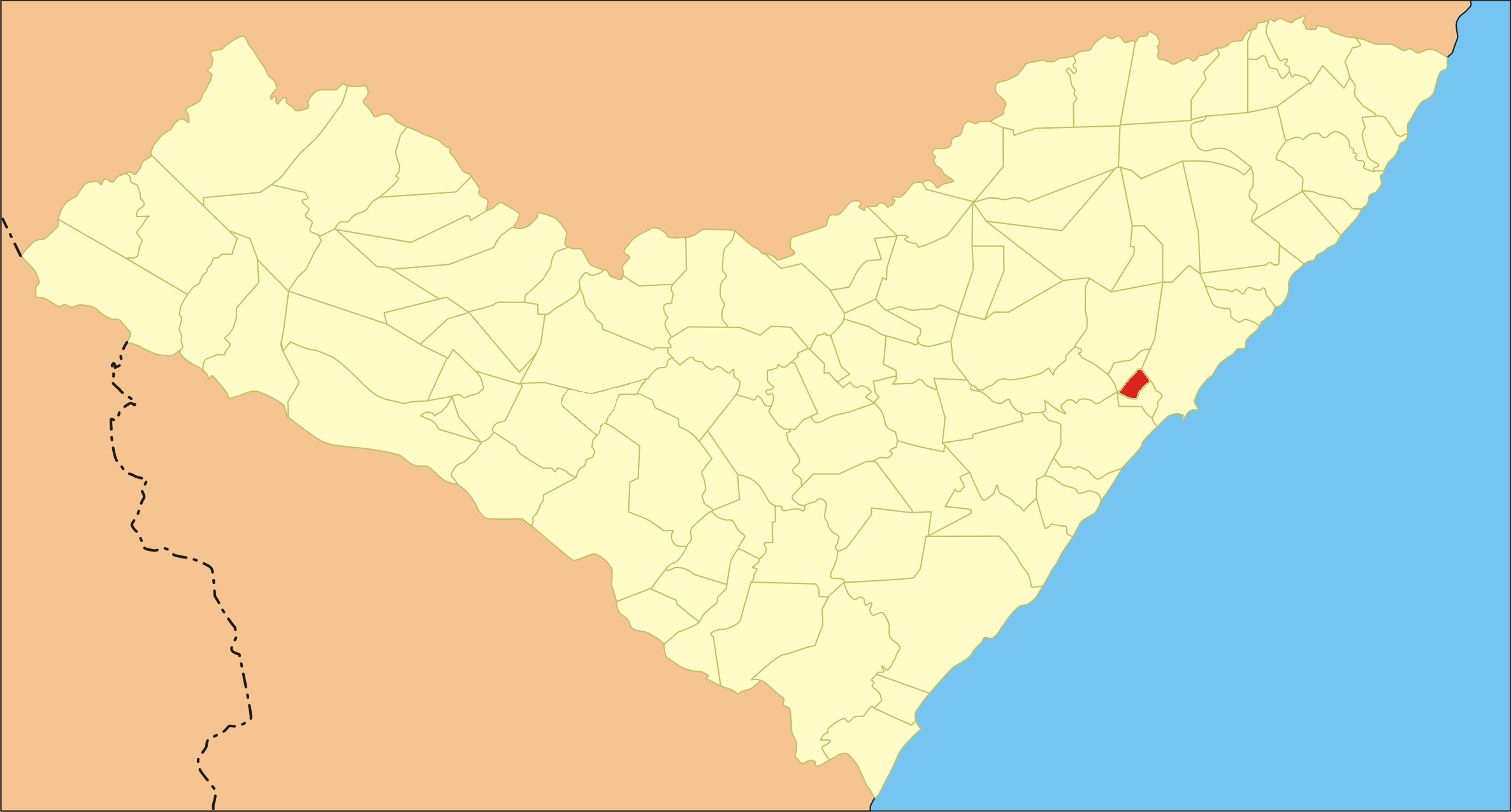 Localization of Santa Luzia do Norte in Alagoas state, Brazil.